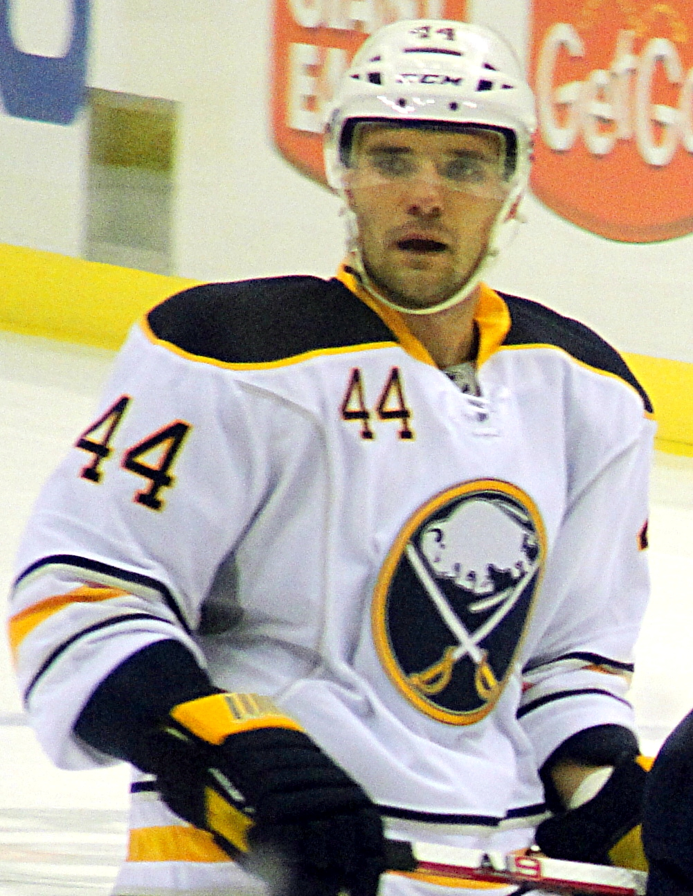 Buffalo Sabres defenseman Andrej Sekera during a game against the Pittsburgh Penguins at Consol Energy Center in Pittsburgh, PA, October 15, 2011.